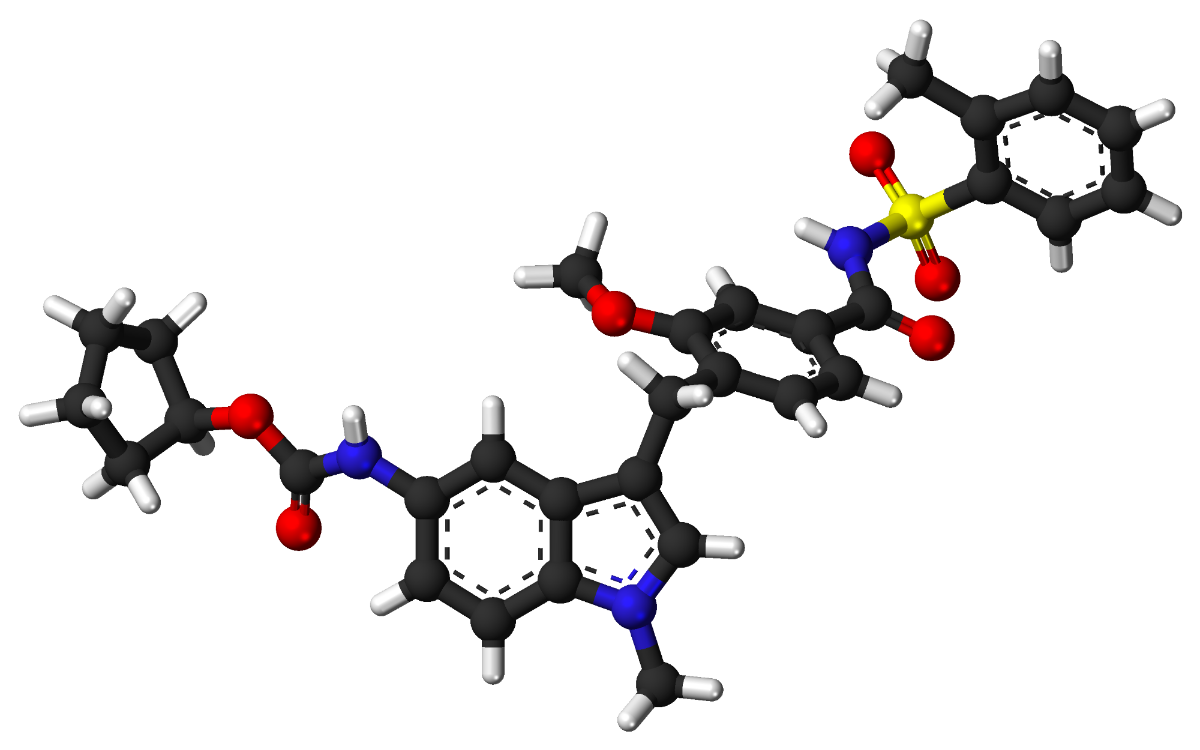 Ball-and-stick model of zafirlukast. Created using Accelrys DS Visualizer Pro 1.7 and GIMP. Optimized with OptiPNG. This chemical image was created with Discovery Studio Visualizer.